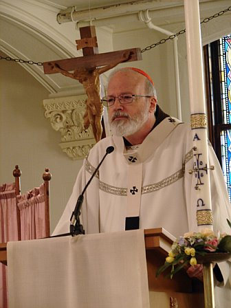 Cardinal O'Malley speaks to students at St. Paul Catholic Church, Harvard Square, Cambridge, Massachusetts, April 30, 2006